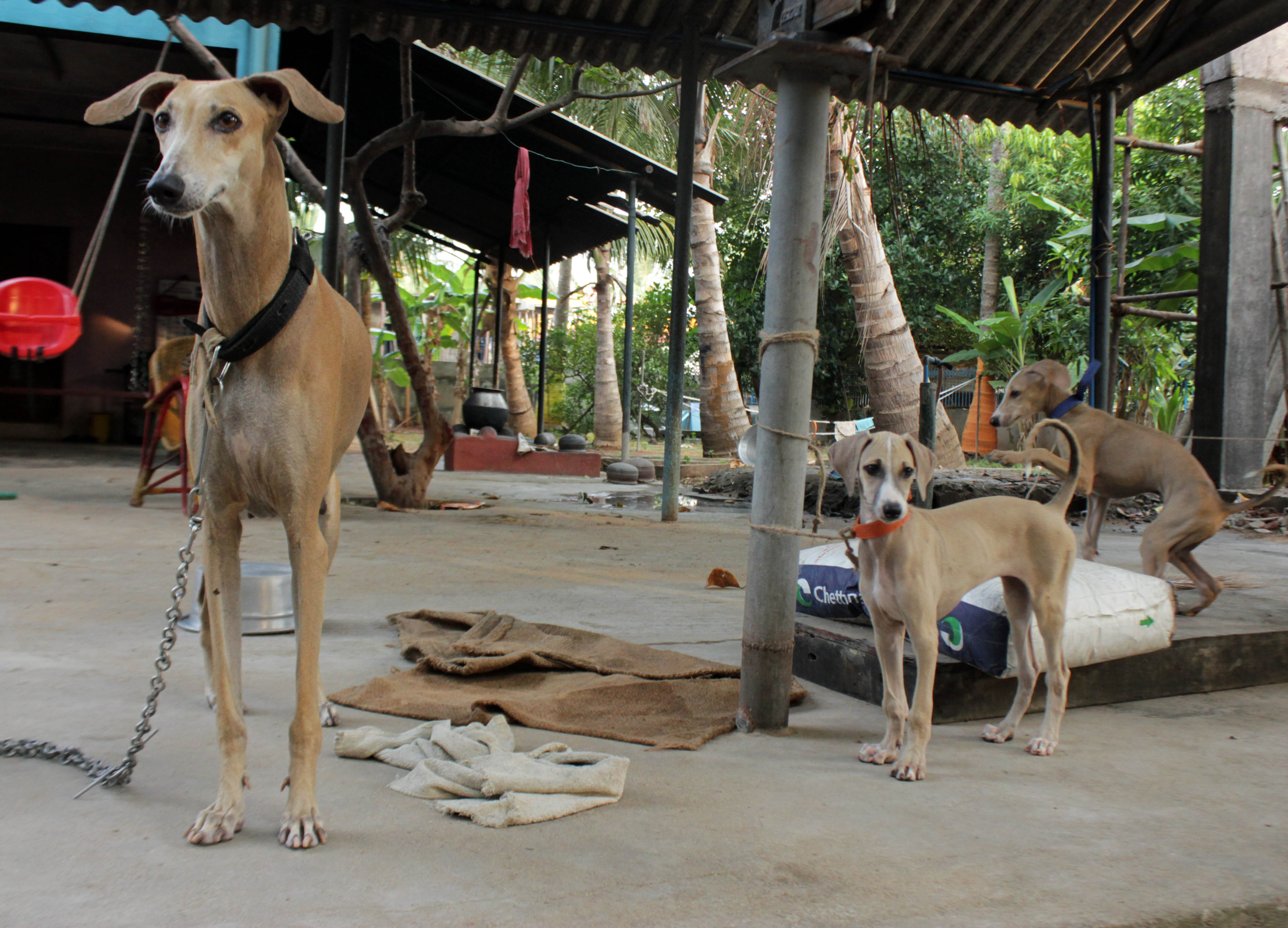 chippiparai female dog